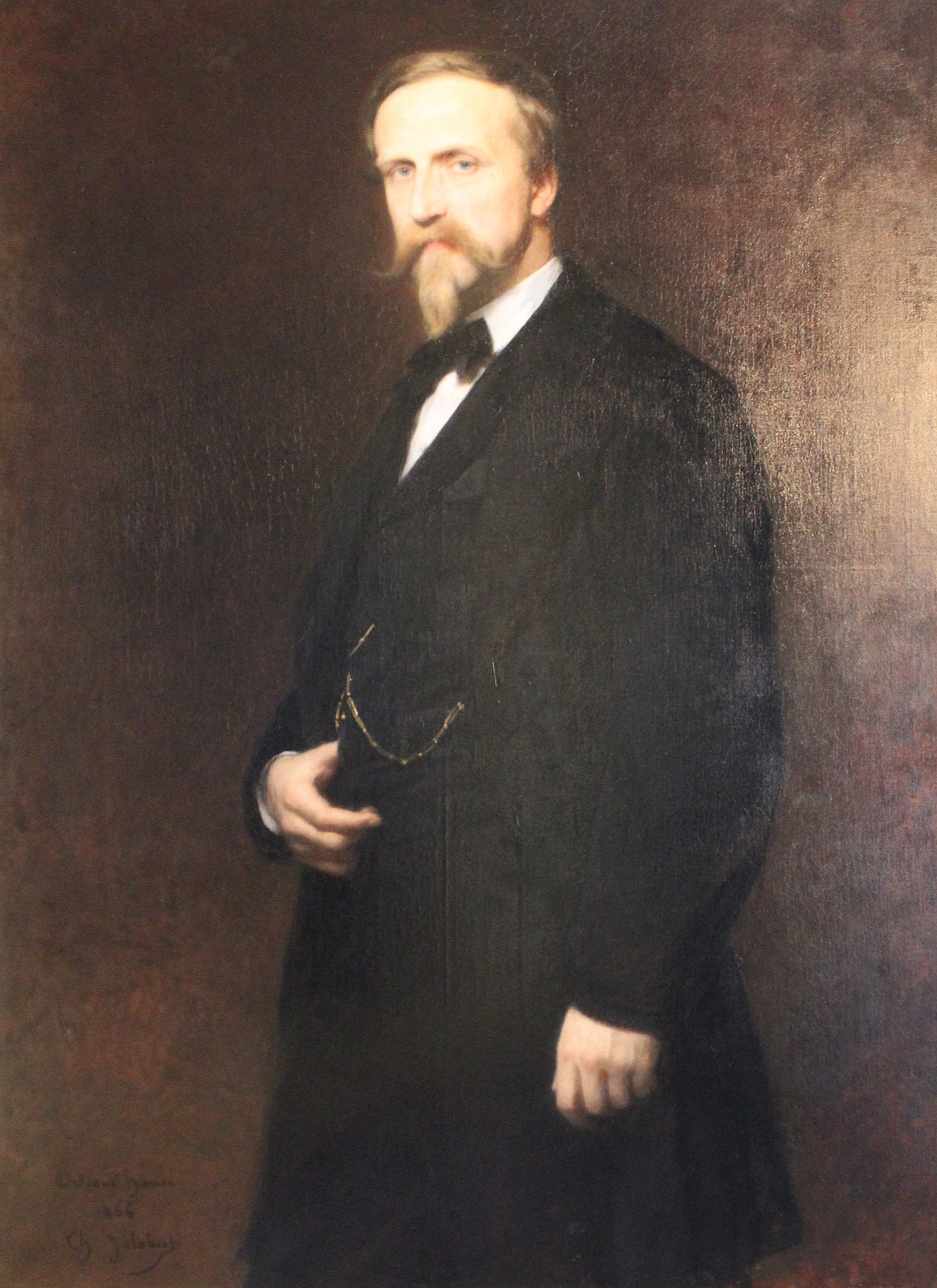 Château de Chantilly, Charles Jalabert, Henri d'Orléans, duc d'Aumale